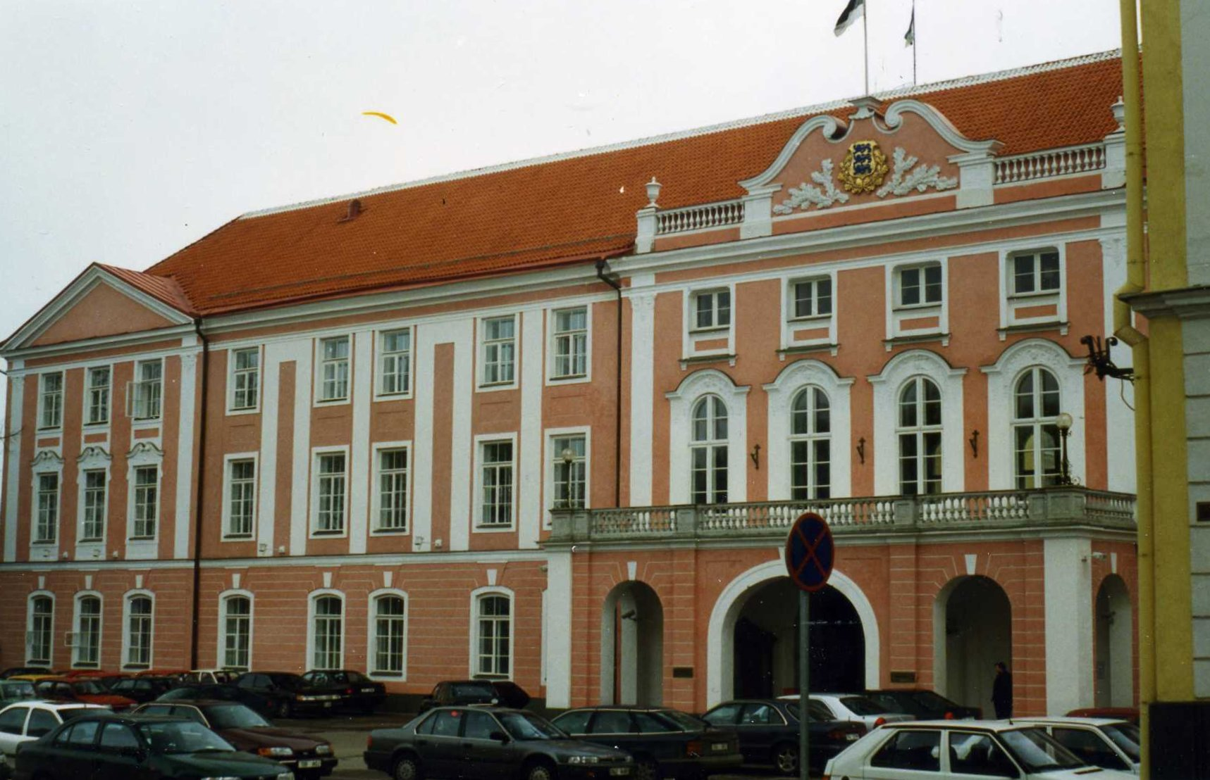 The spruced up Parliament building. Lots of black ministerial cars. No Ladas in sight.